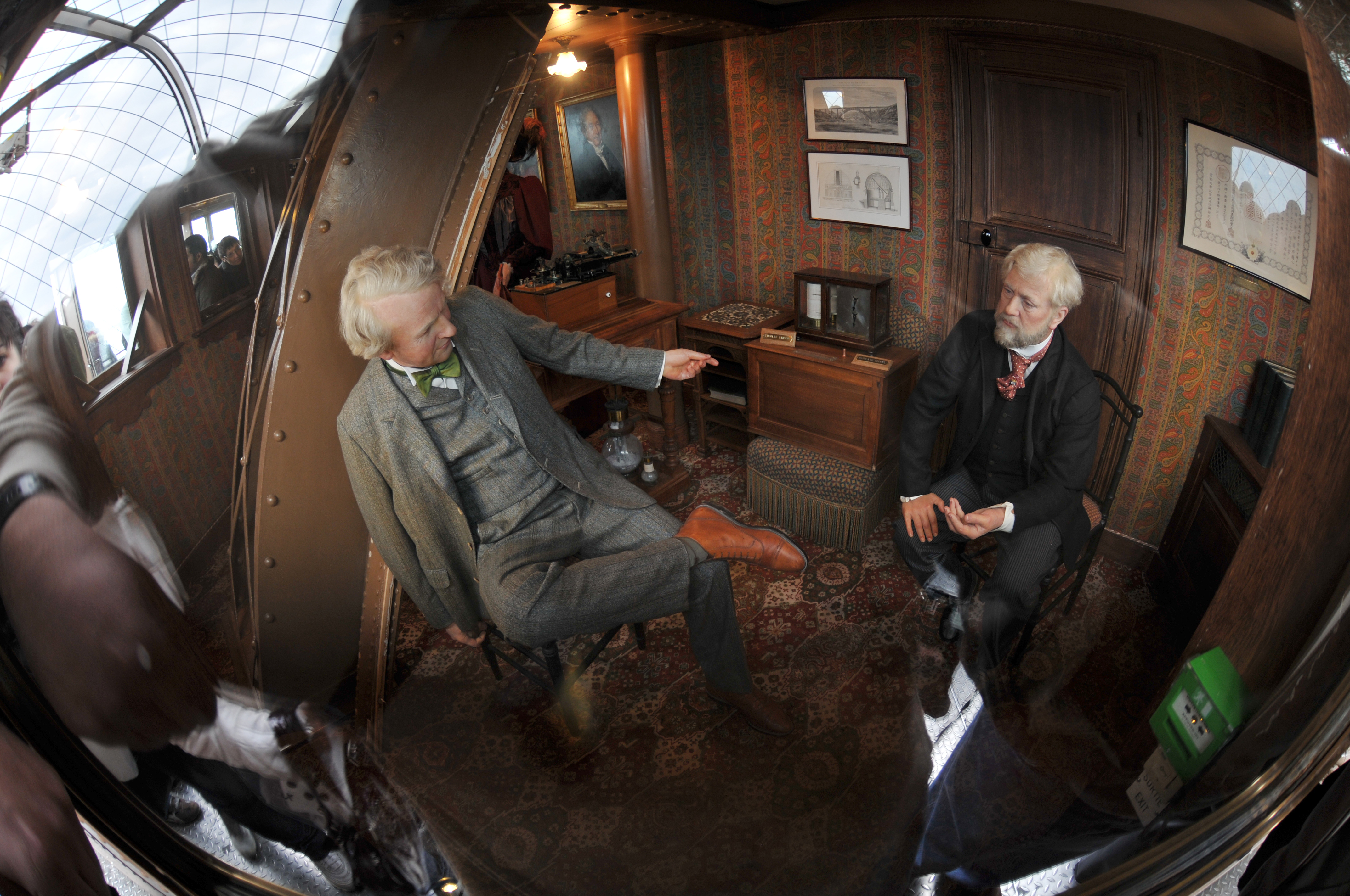 Can't figure out the guy next to Gustave. anyone can shed some light please??? Gustave is in the grey black suit - And Thomas Alba Edison - Thank you ma7ias